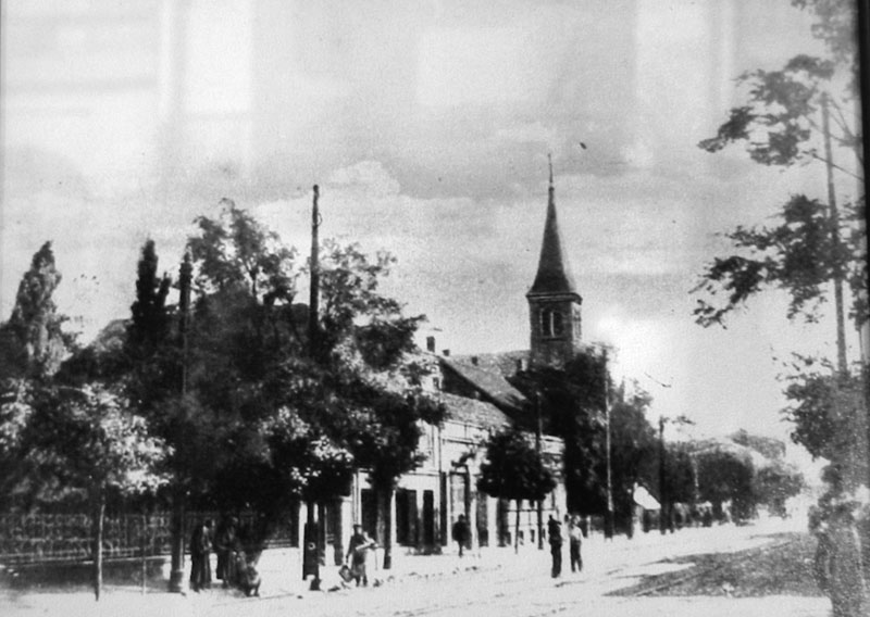 Mikheil ave. (Now David Agmashenebeli Ave.) and Deutsche kirche